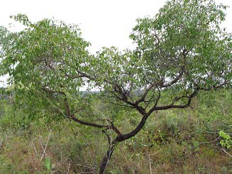 Mangabeira (Hancornia speciosa)